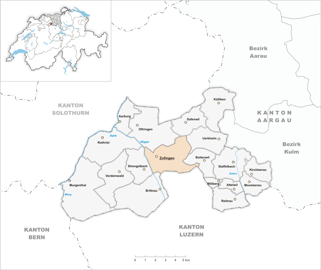 Municipality Zofingen